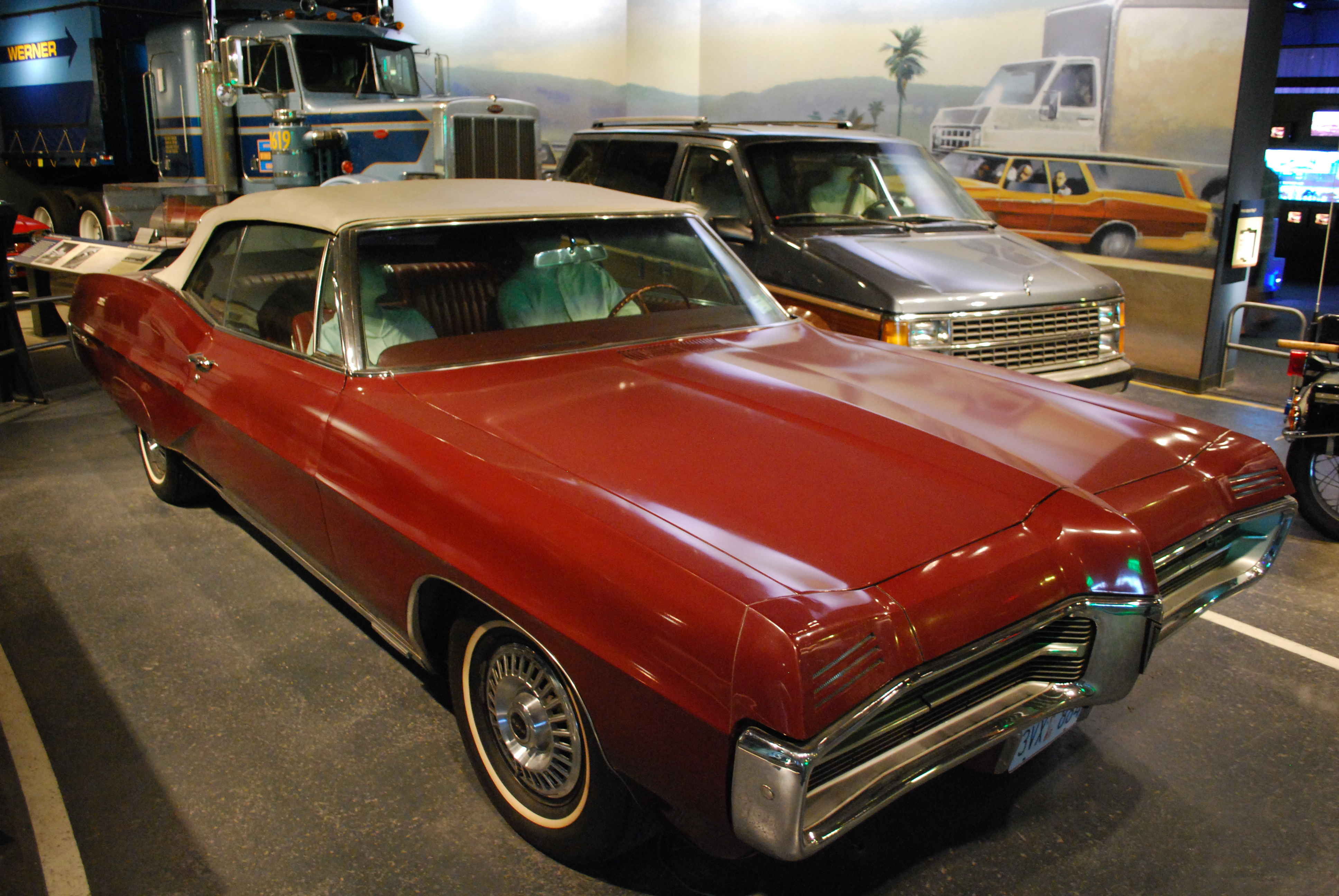 A 1967 Pontiac Grand Prix on display at the Smithsonian Institution National Museum of American History.